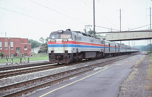 A southbound train passes through Elkton station in September 1981